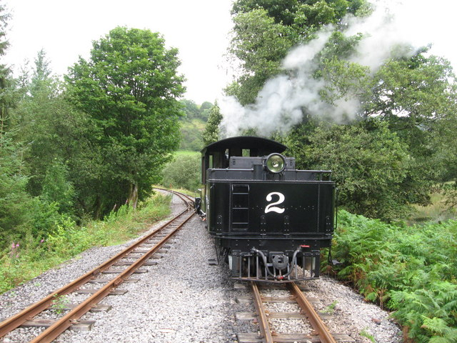 Brecon Mountain Railway The northern limit of current operations is the run-round loop near Dol-y-Gaer. Locomotive number 2, a 1930-built Baldwin 4-6-2 goes forward to clear the points, before reversing to run round its train. The line, currently being extended north, continues on through Dol-y-Gaer to the site of a new station at Torpantau, but no trains are presently running north of this point.